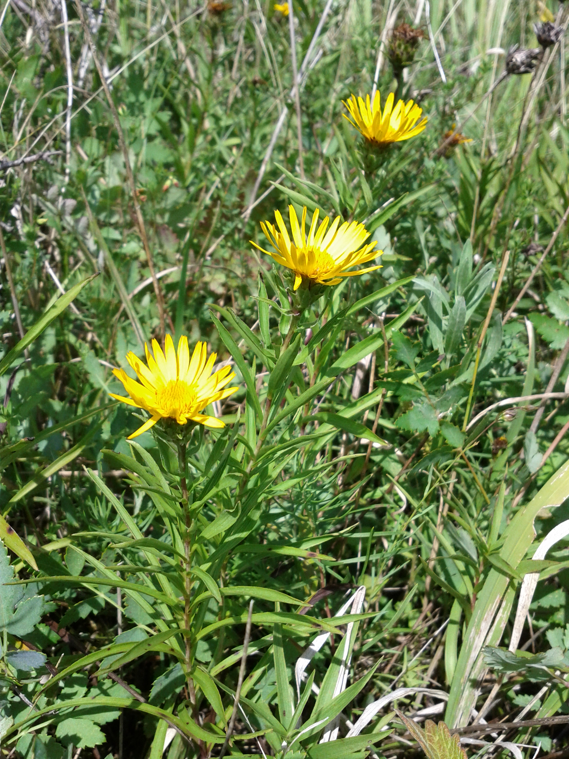 Habitus Taxonym: Inula ensifolia ss Fischer et al. EfÖLS 2008 ISBN 978-3-85474-187-9 Location: Kronawettberg, Hagenbrunn, district Korneuburg, Lower Austria - ca. 275 m a.s.l. Habitat: semi-dry grassland